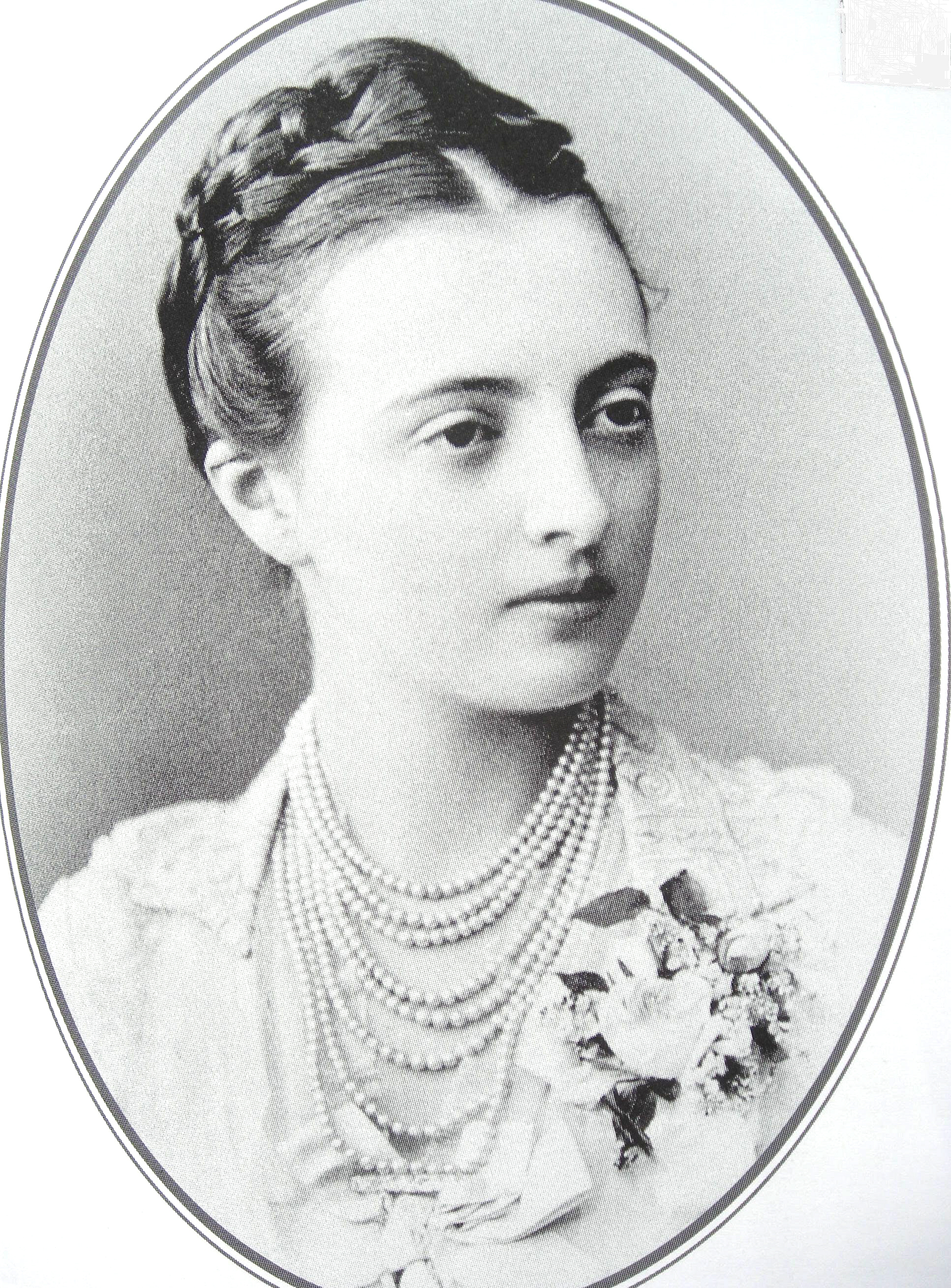 Grand Duchess Anastasia Mikhailovna of Russia, ca. 1878